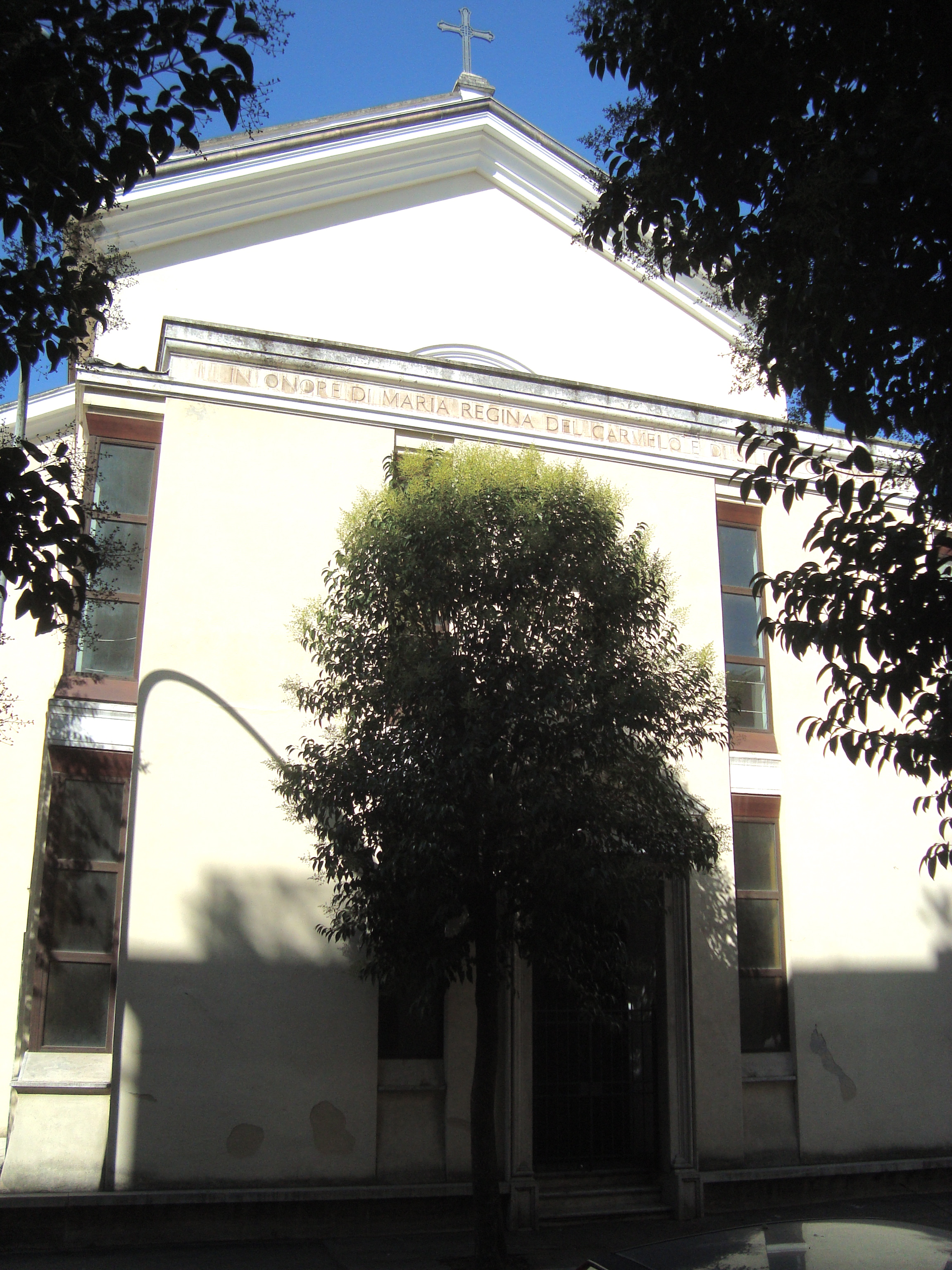 View of the church San Luigi Gonzaga in rione Parioli, Rome